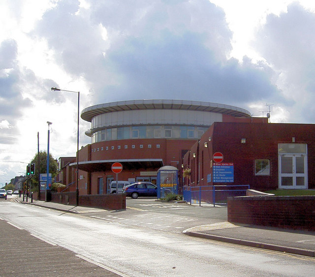 Mexborough Montague hospital. Does not cater for emergency outpatients.